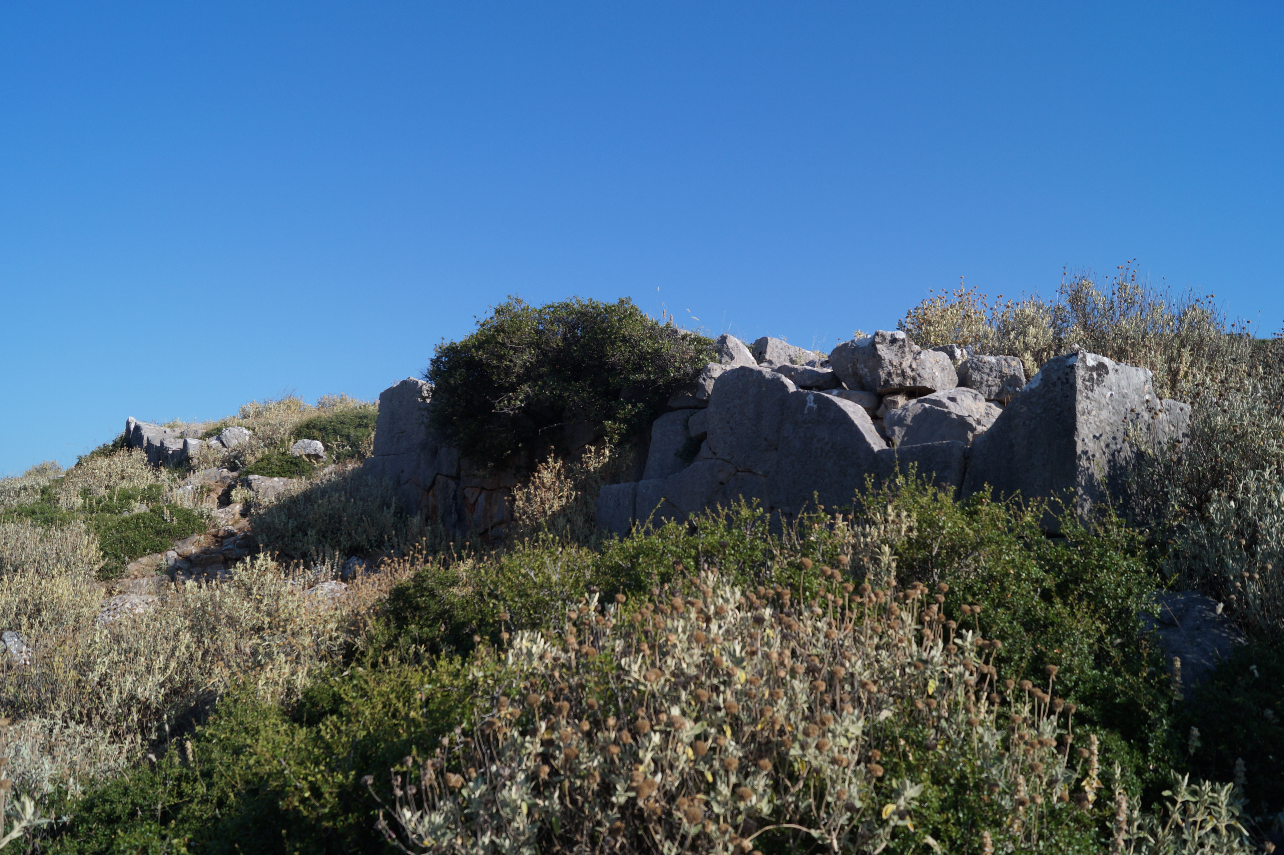 Archaeological site of Abae, Fthiotis, Greece. Outer city wall circuit in the polygonal style.